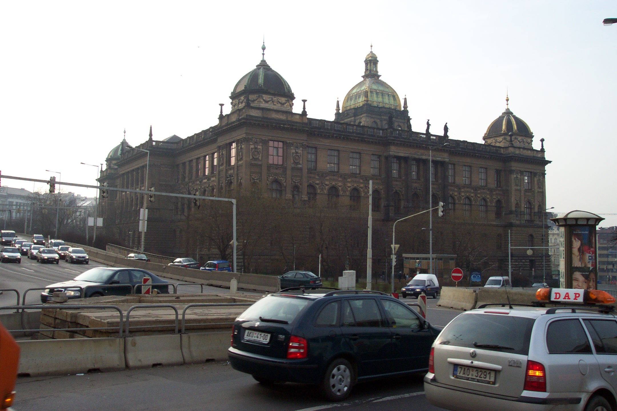 National Museum in Prague